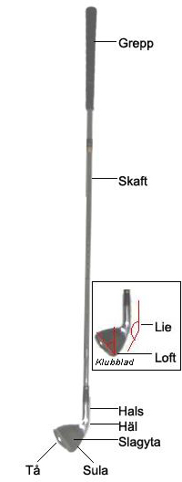 Created by Stefan Berg 2005-05-08.